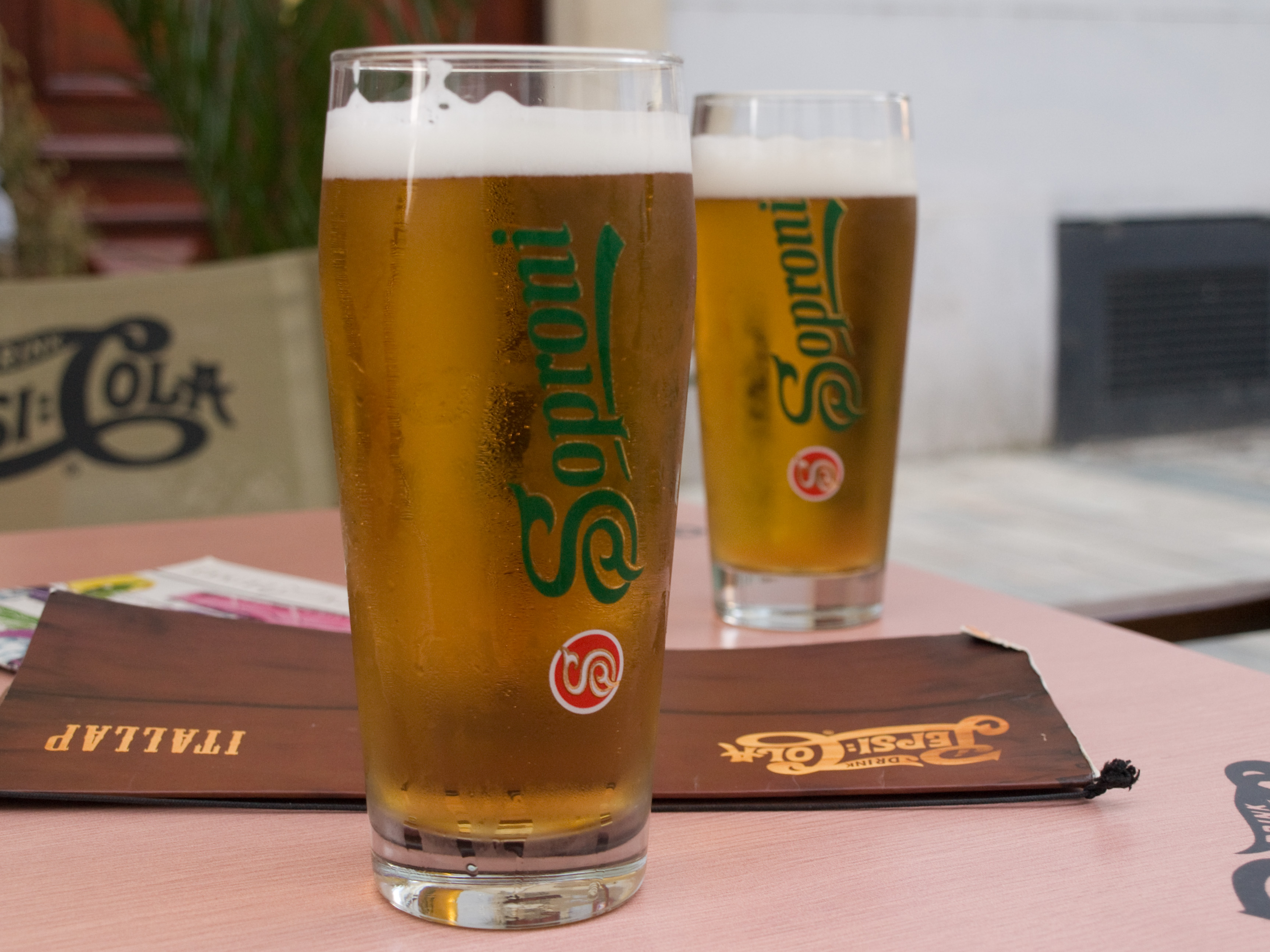 Soproni beer, Miskolc